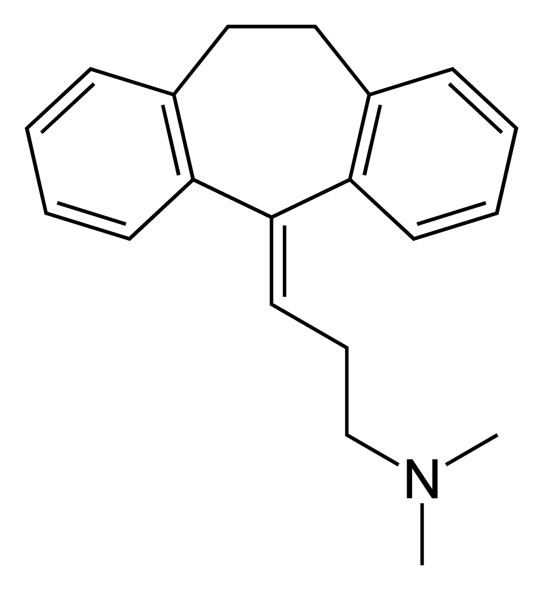 Skeletal formula of amitriptyline, C20H23N.